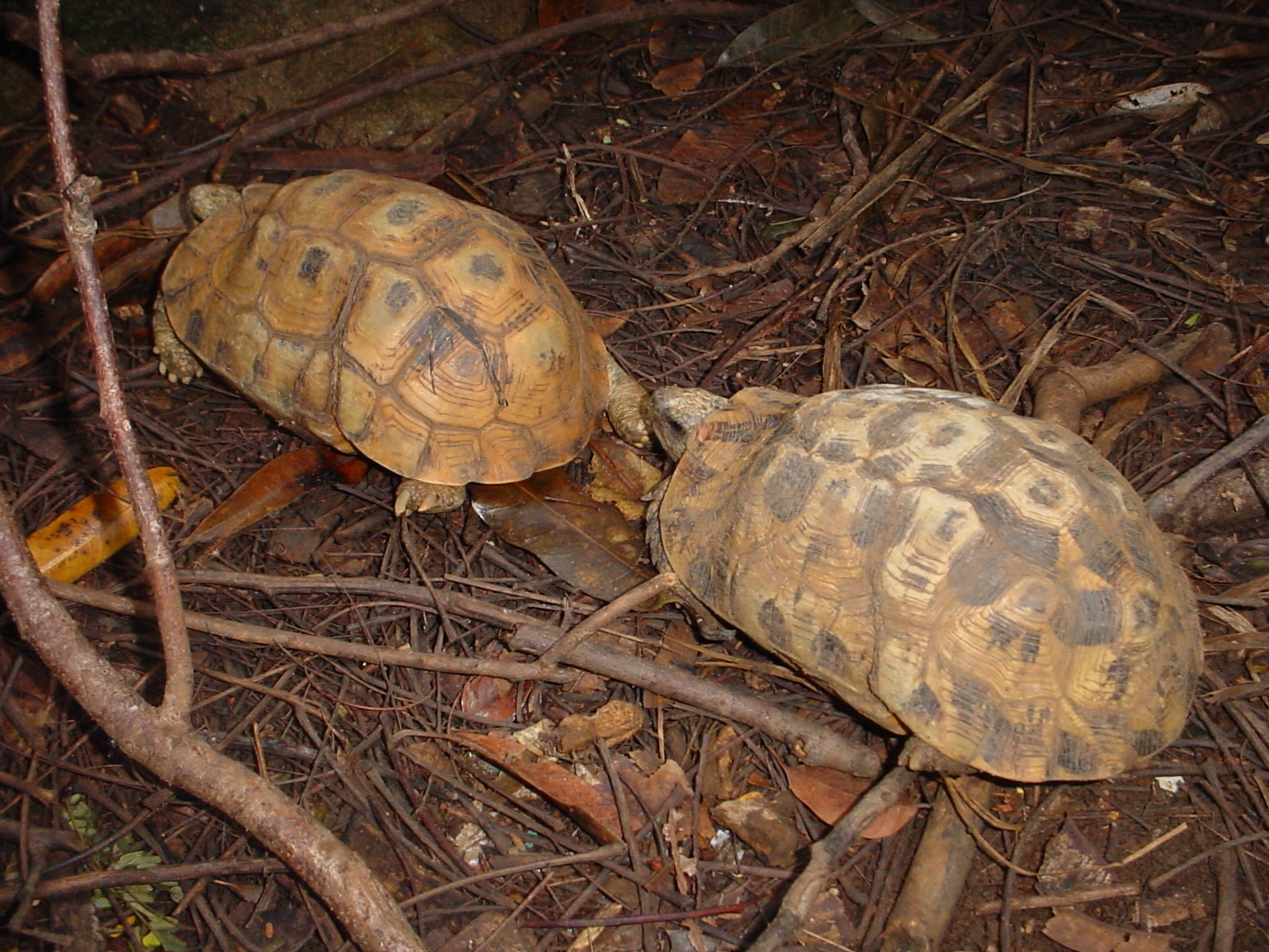 Couple of land tortoises (Pyxis arachnoides) on Nosy Komba island (North Madagascar)